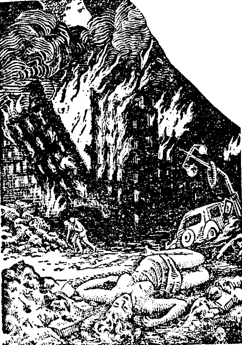 Inner artwork by an uncredited author for the short story Regeneration by Charles Dye and Katherine MacLean from Future Combined with Science Fiction Stories, September 1951.